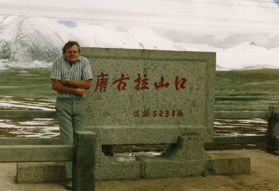 The Tanggula Pass boundary marker stone at an elevation of 5,231m on the border of Tibet and Qinghai, PRC.